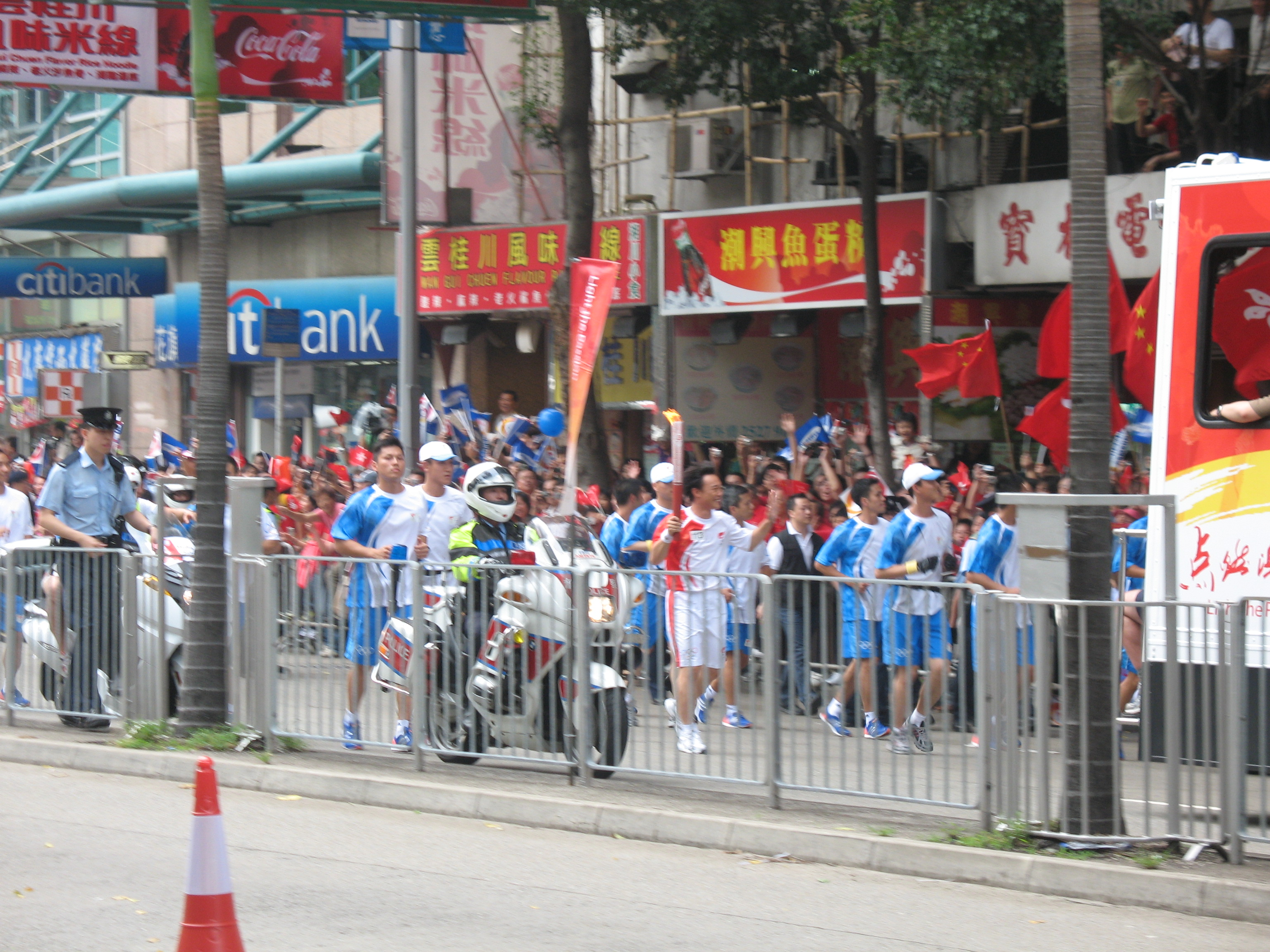 2008 Summer Olympics Torch in Wan Chai, Hong Kong.